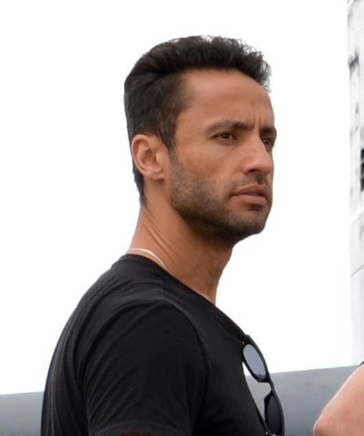 Kamar de los Reyes, an actor from the video game “Call of Duty-Black Ops II,” on a tour of the Los Angeles-class attack submarine USS Houston (SSN 713).